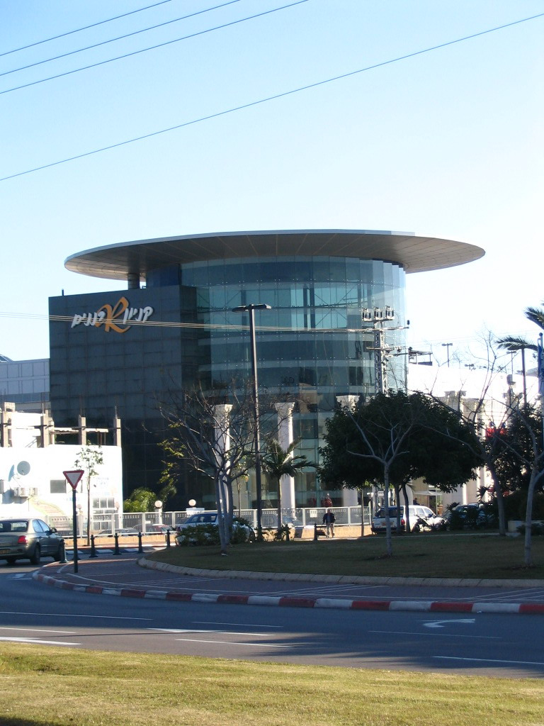 Rananim trade center in Raanana.